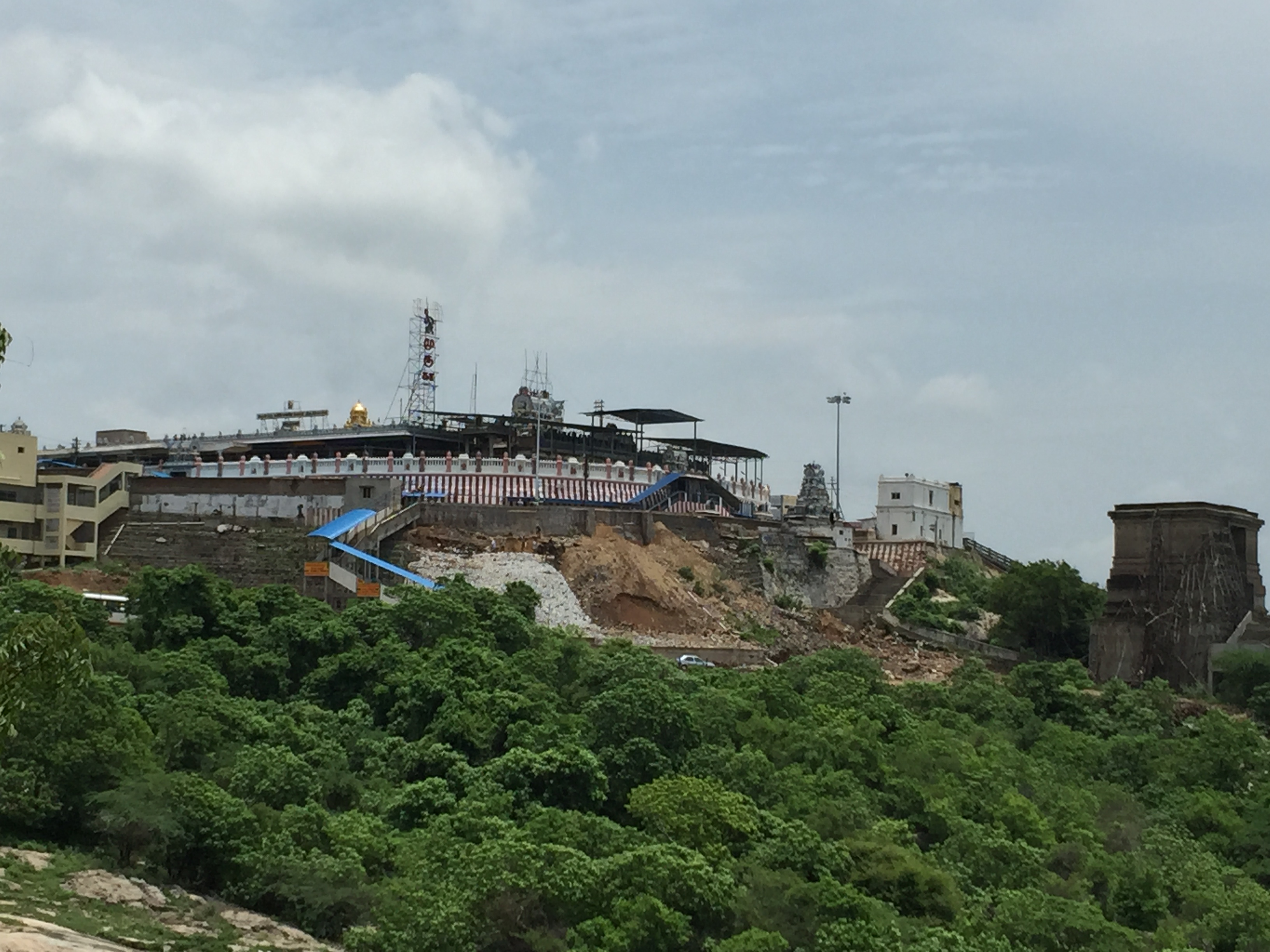 View of Tiruttani hillock and the Murugan temple on top